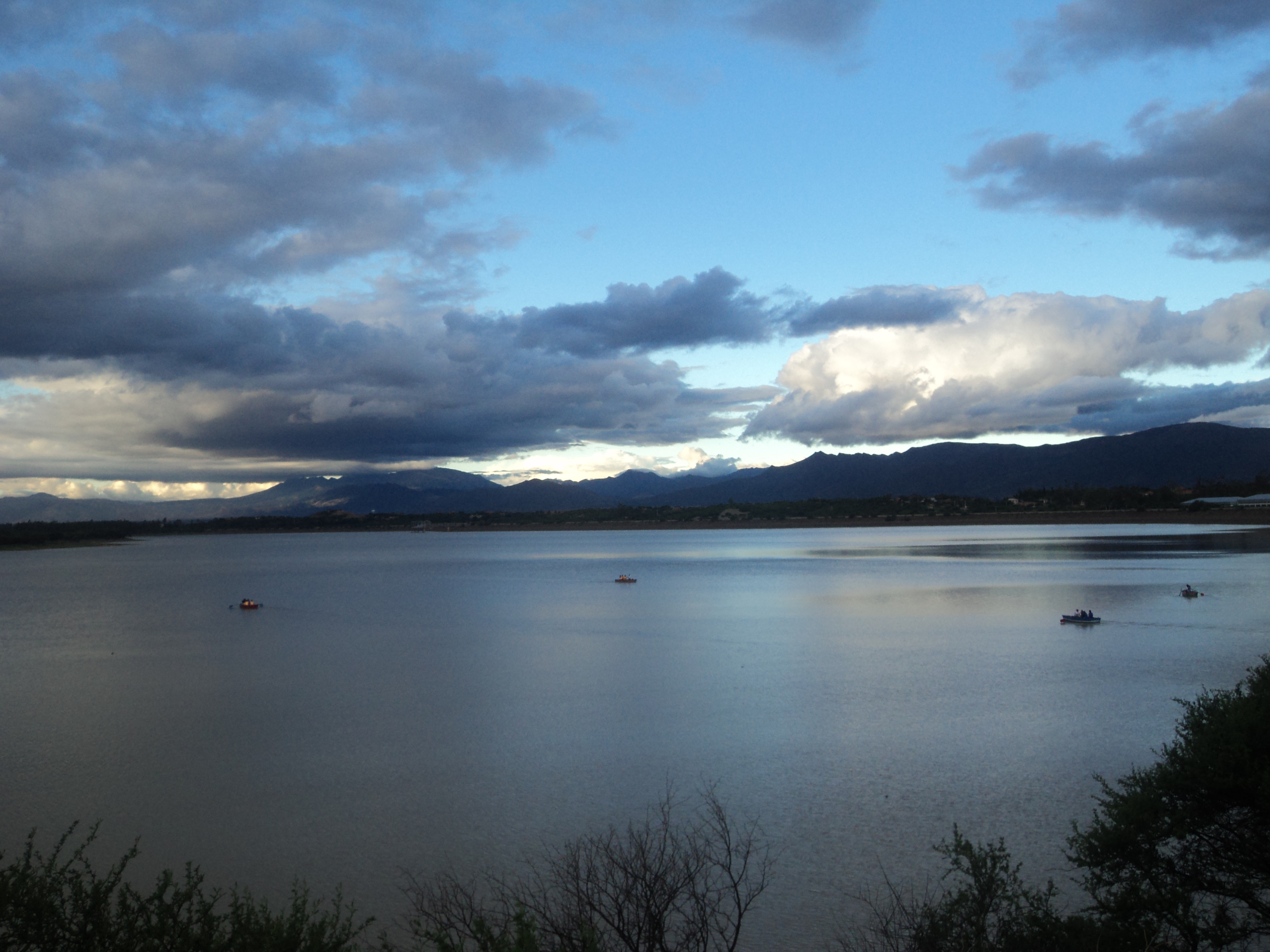 San Jacinto Lake, Tomatitas, Tarija (Bolivia)